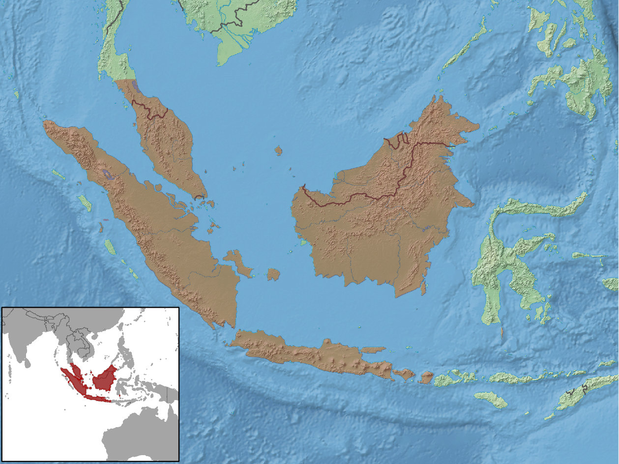 geographic distribution of Callosciurus notatus